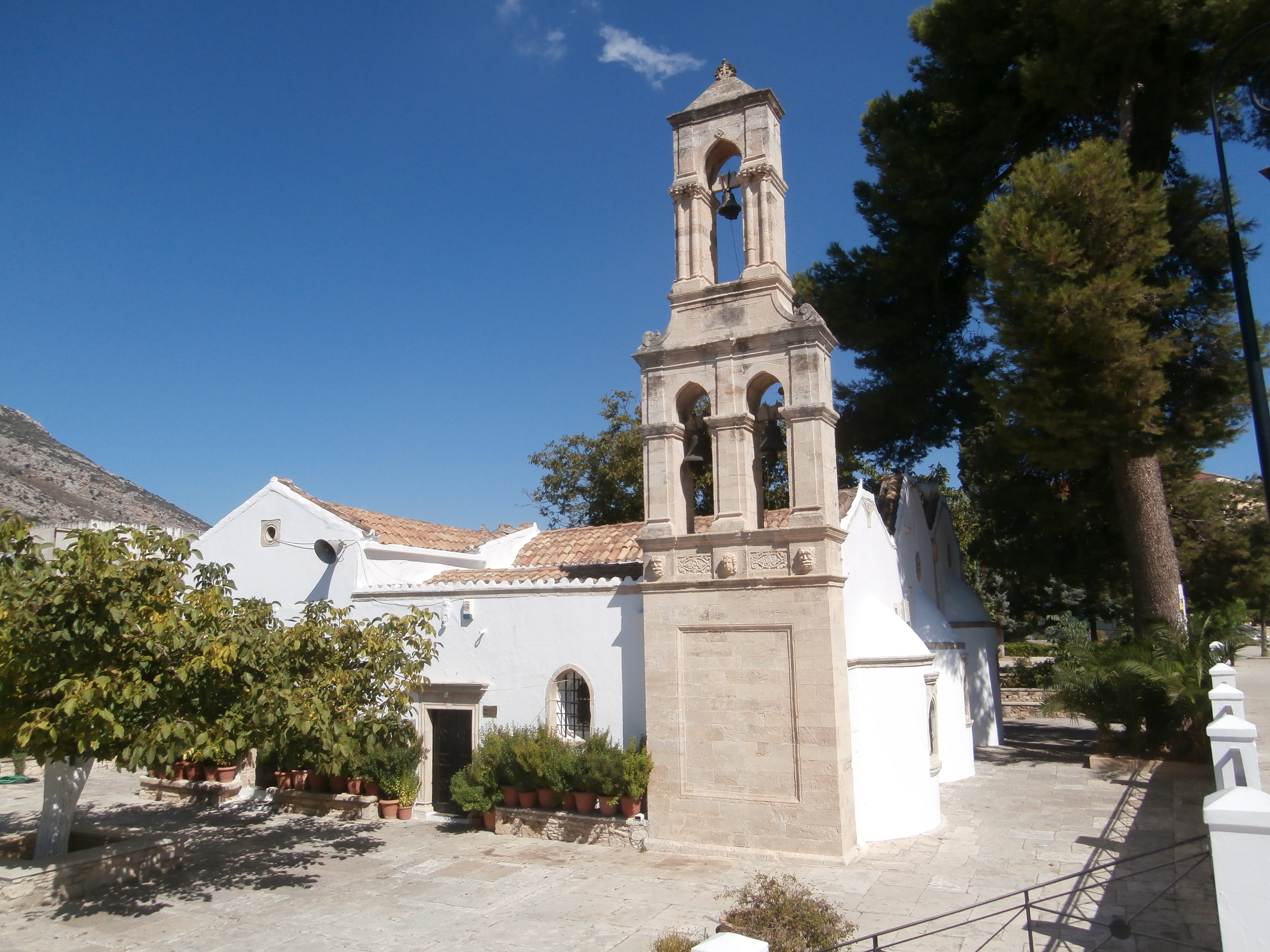 The Church of Panagia, Epano Archanes